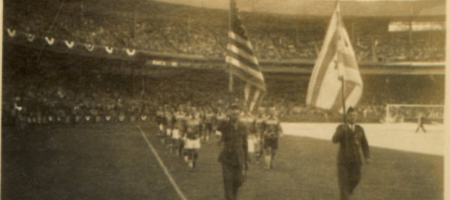 The national football teams of Israel and the USA coming up to the field in New York. This is the first game of Israel National football Team after the declaration of independence in May 14th, 1948.